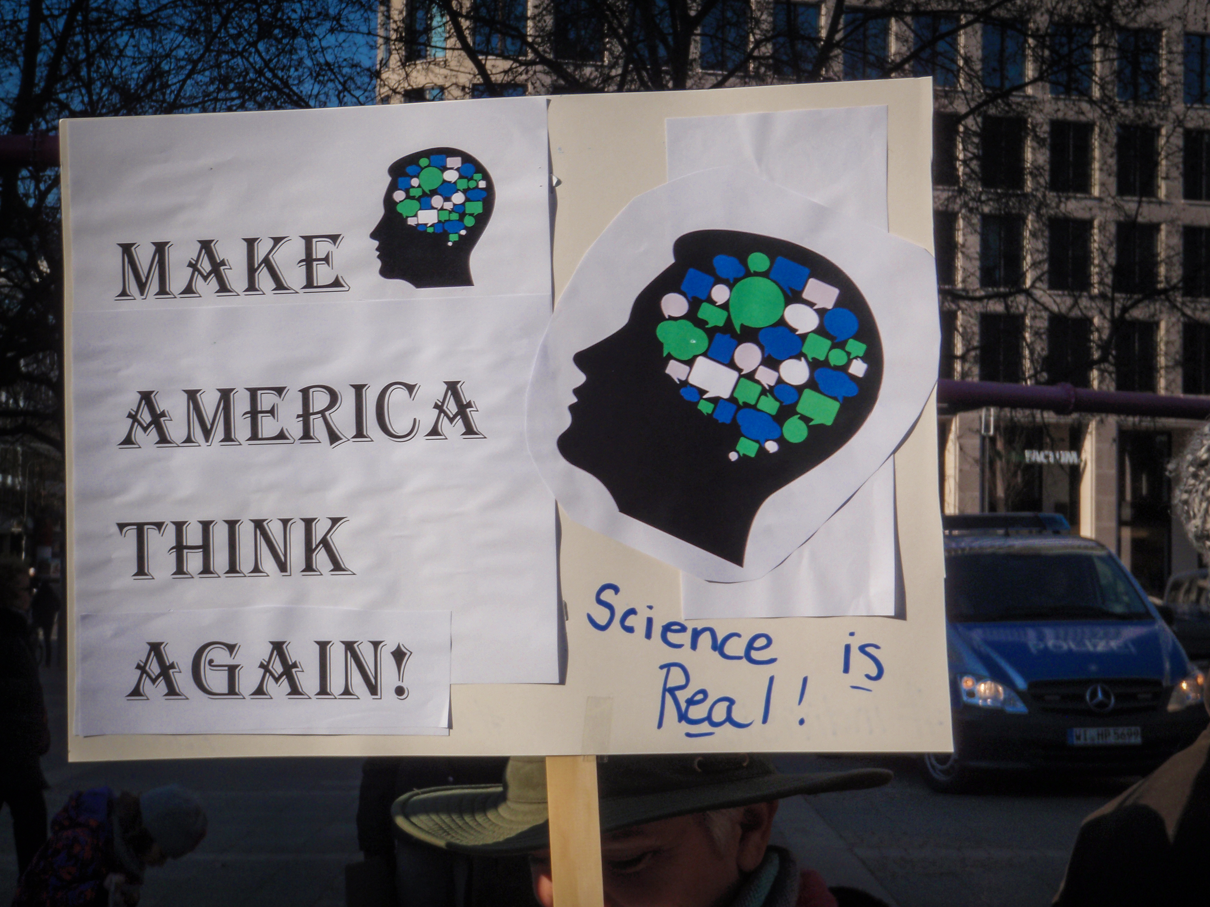 Poster with variation of Donald Trump's campaign slogan "Make America Great Again".